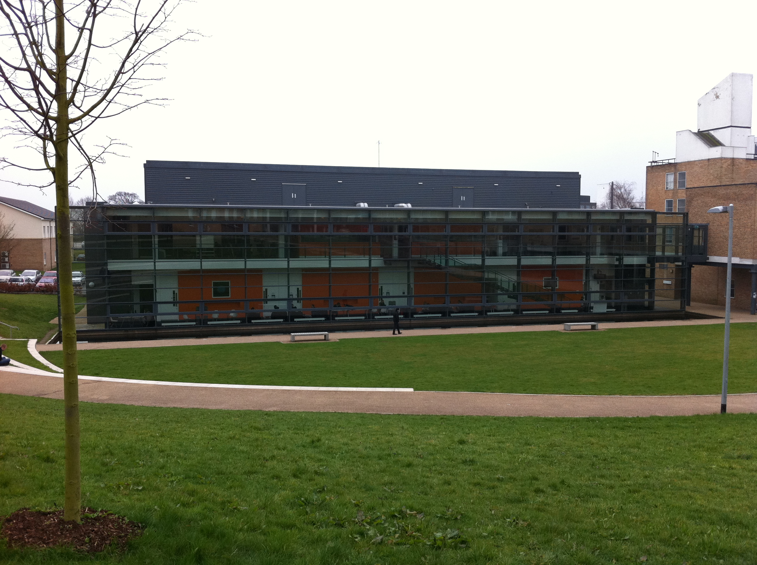 Post-Graduate Statistics Centre